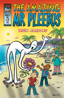 Cover of comic Amazing Pleebus. Image reproduced with permission of author, Nick Abadzis. Permission provided by e-mail, November 31, 2007.